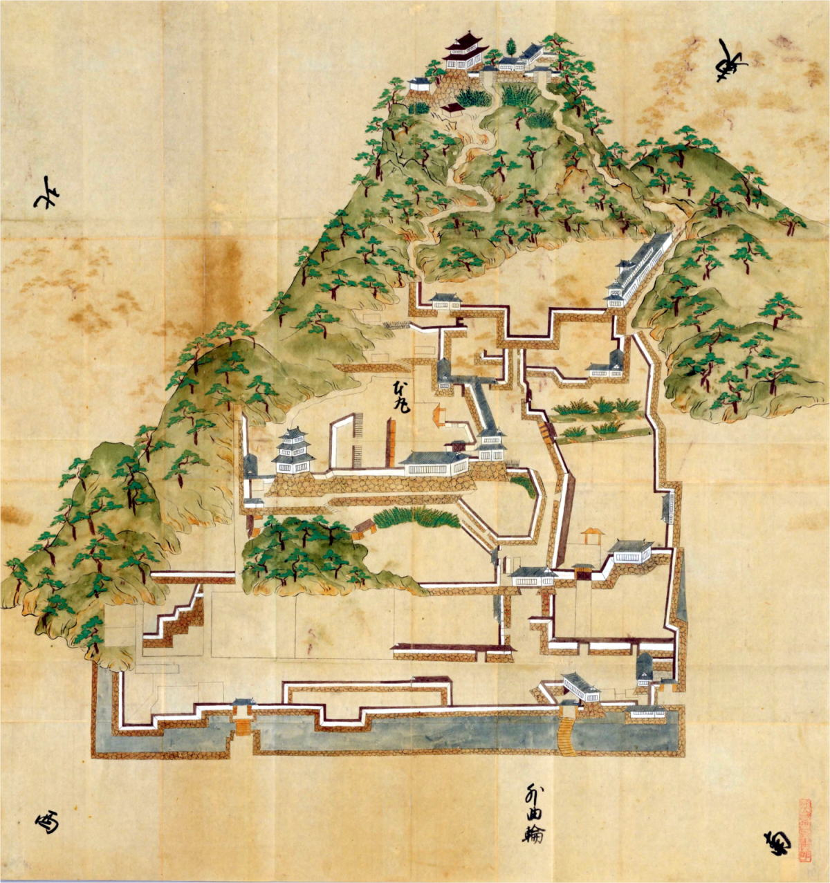 Layout of Tottori Castle, old